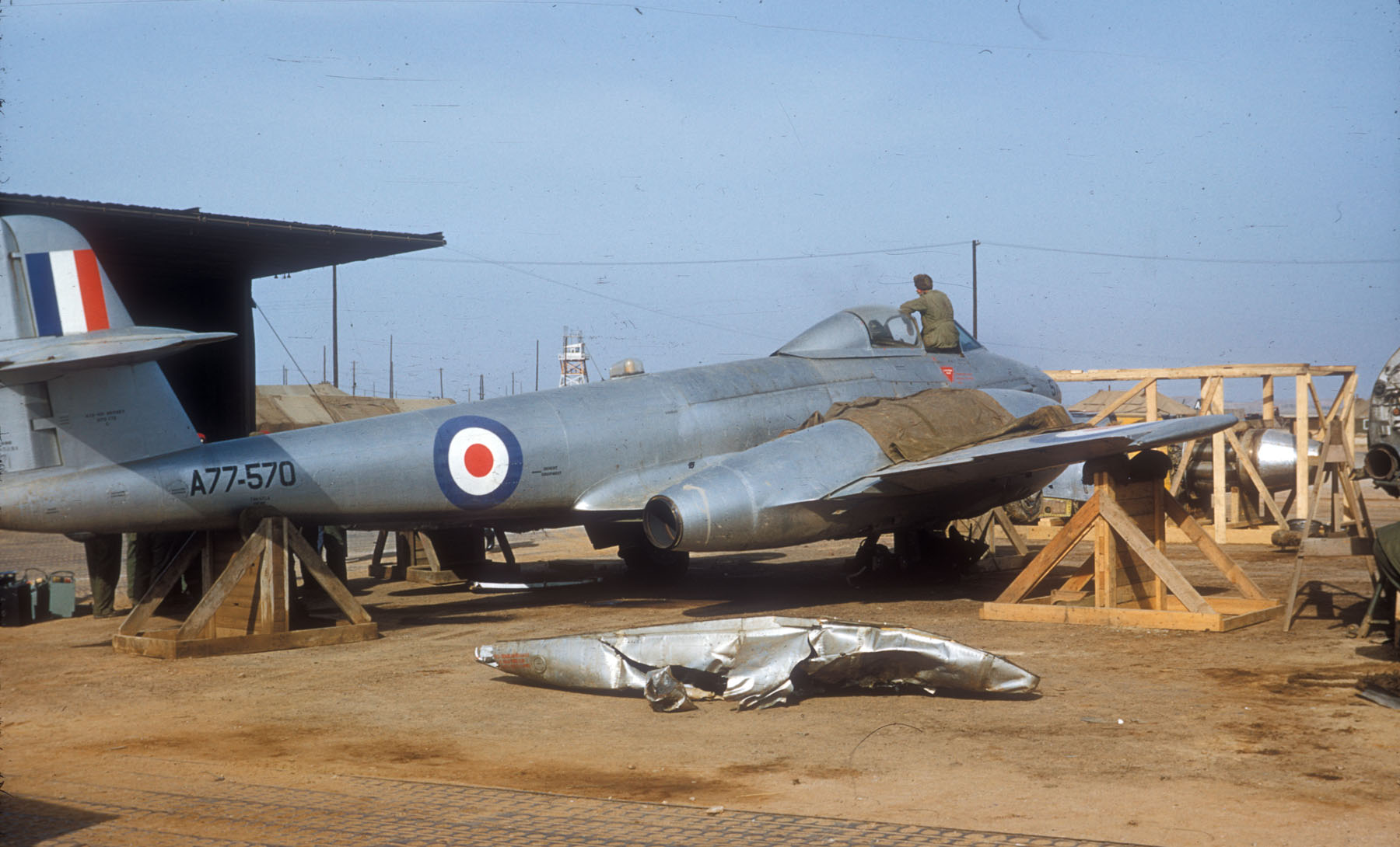 A Royal Australian Air Force Gloster Meteor F 8 fighter (serial A-77-570) from No. 77 Squadron at K-14 Kimpo air base during the Korean War. 77 Squadron received the Meteor in May 1951. Originally it was used against the Mikoyan-Gurevich MiG-15. As the Meteors proved to be no match for the MiGs, the squadron switched to ground-attack in September 1951. A77-570 was delivered to the Royal Air Force on 3 June 1951 (serial WE890), and came to the RAAF on 28 December 1951. It was written off on 18 March 1954.